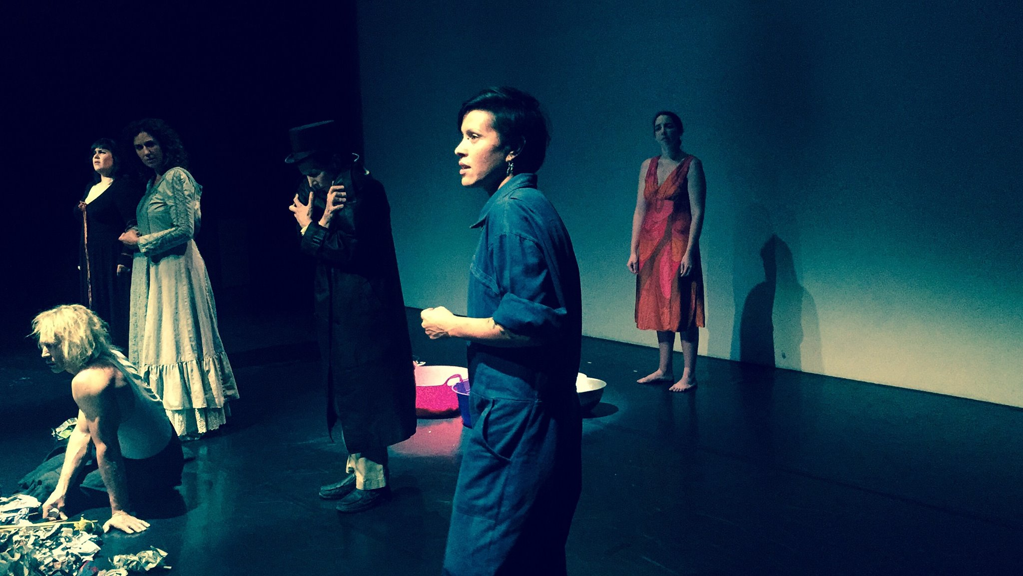 photo